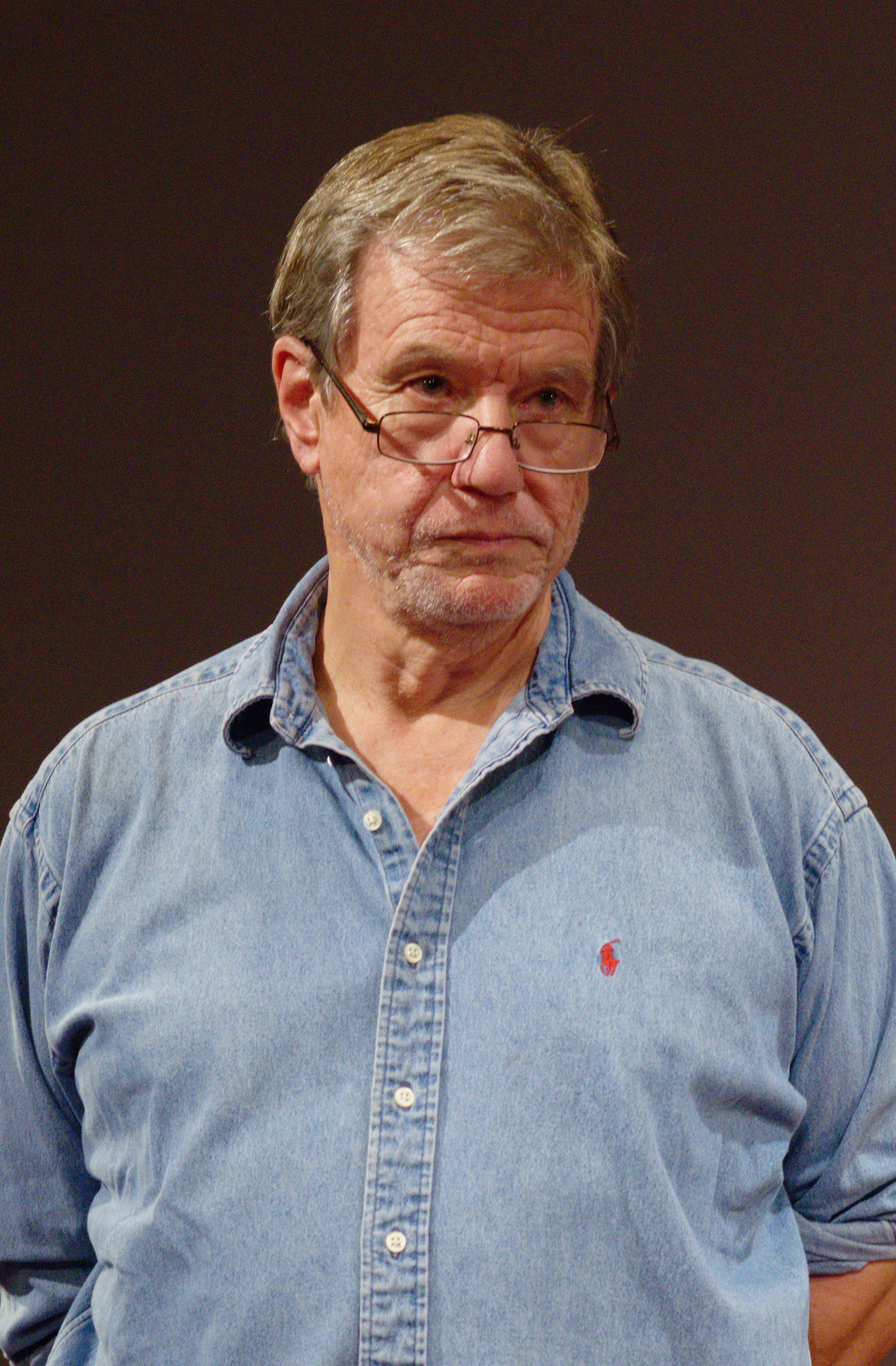 John McTiernan speaking during his masterclass at the Cinémathèque Française on 09-13-2014.